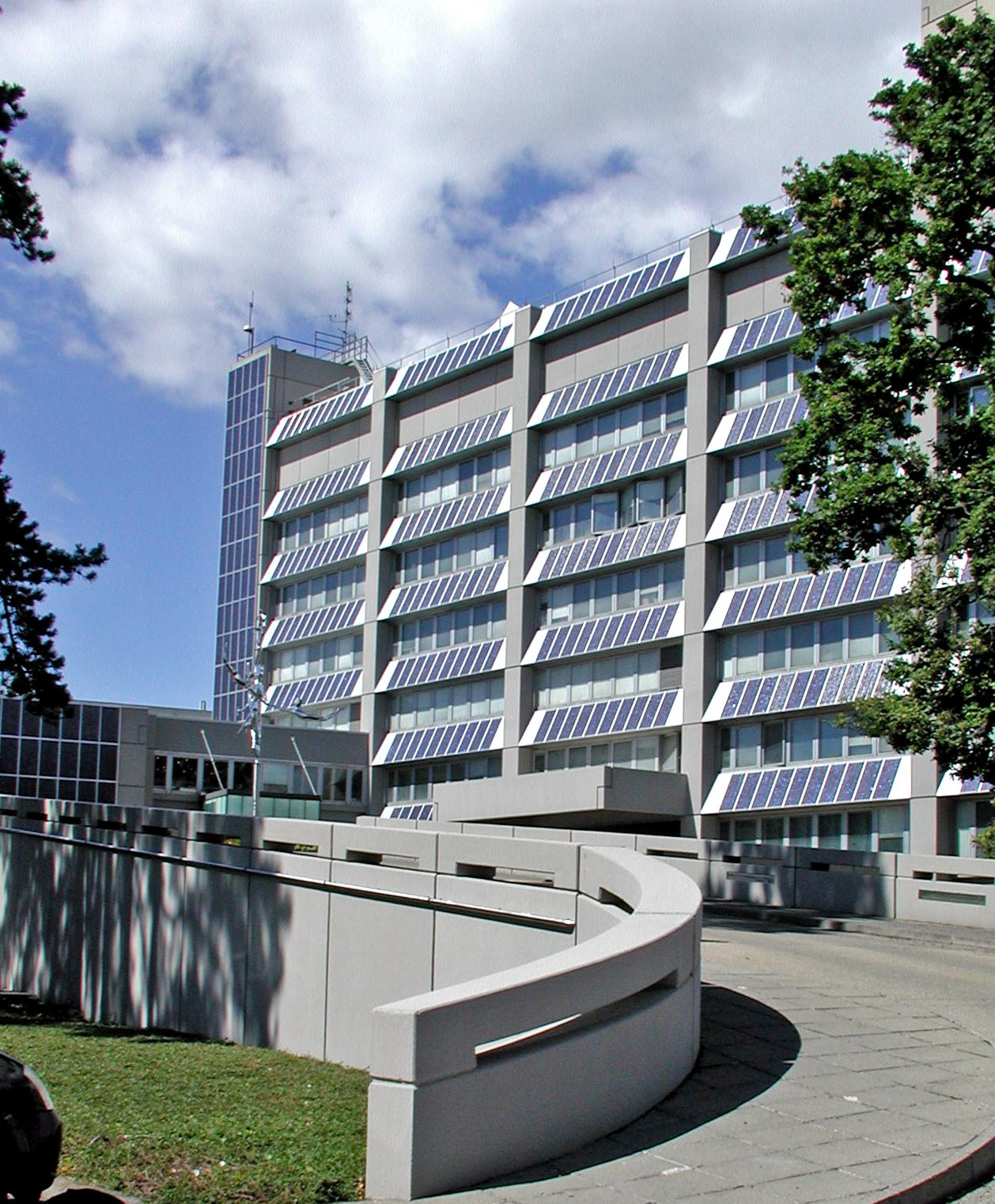 The United States Mission to the United Nations and Other International Organizations in Geneva is the first U.S. Diplomatic Post with a building-integrated solar power system.